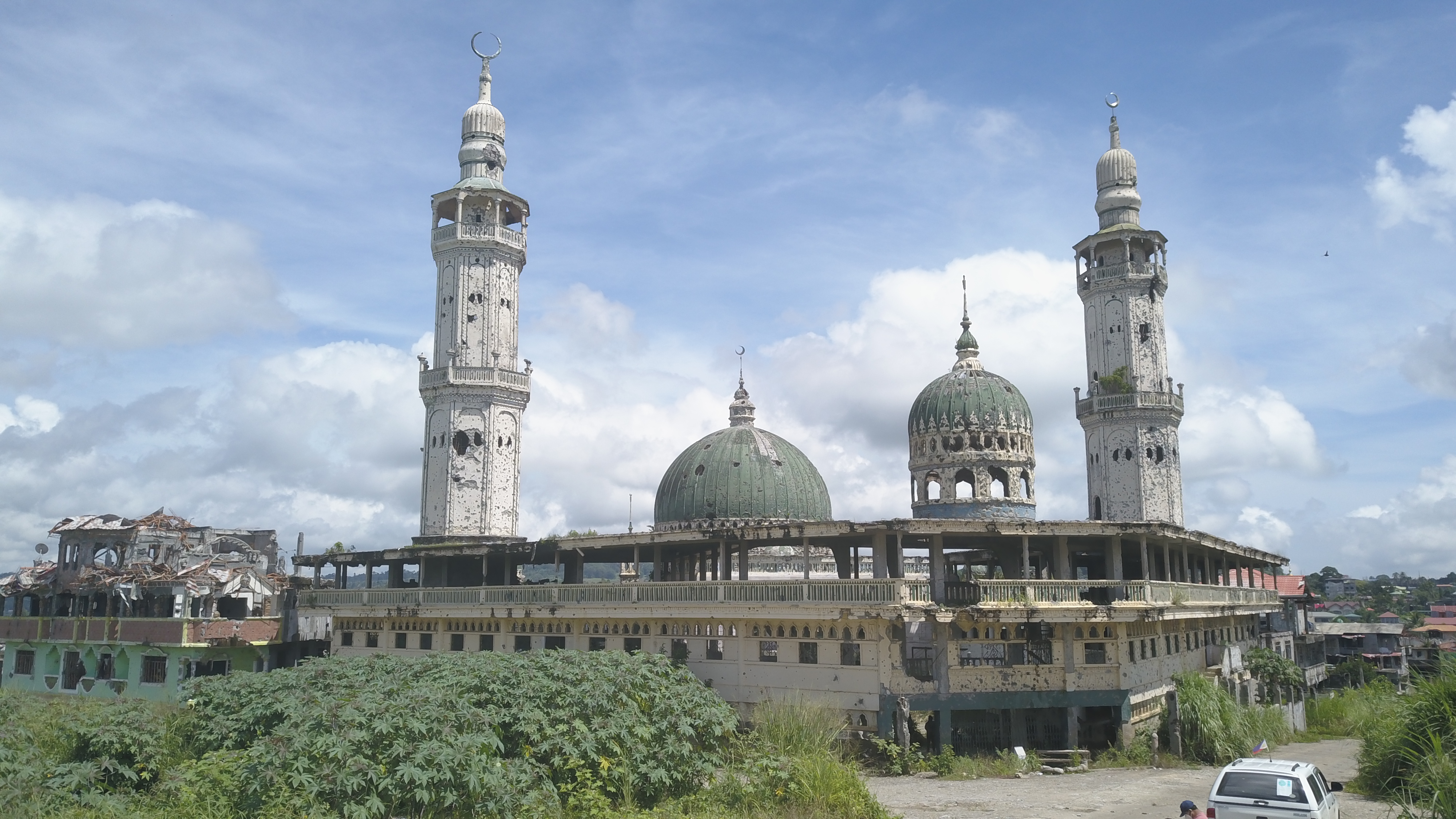 Also known as the Islamic Center, the Marawi Grand Mosque is one of the mosques inside the most affected areas of Marawi that is included in the list of mosques to be prioritized for repair and rehabilitation. (PIA ICIC)